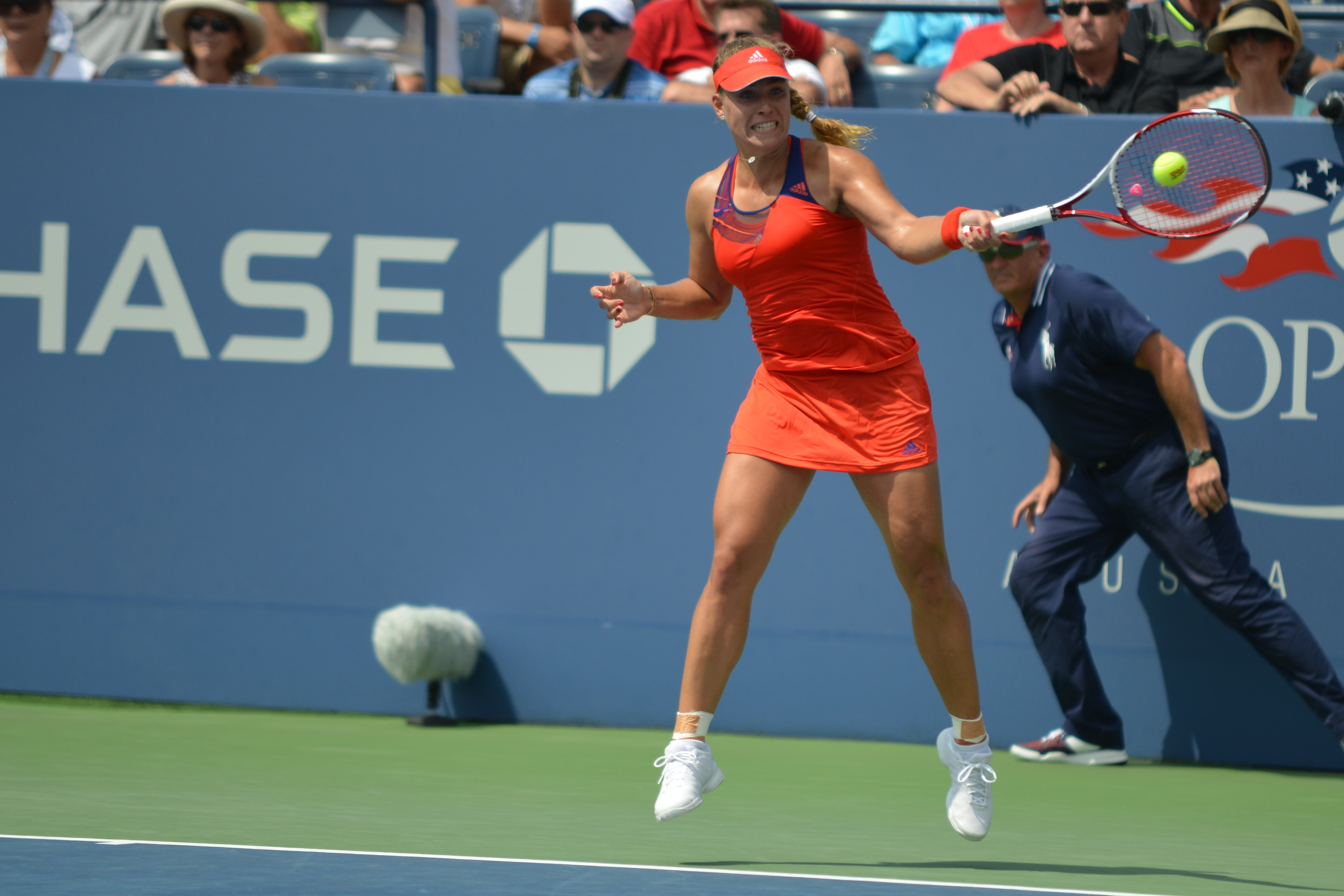 Angelique Kerber at the 2013 US Open